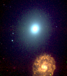 Image of the M60 galaxy in Infrared at 3.6 (blue), 5.8 (green) and 8.0 (red) µm. The image has been made by myself (Médéric Boquien) from the public image archive of the Spitzer Space Telescope (courtesy NASA/JPL-Caltech)